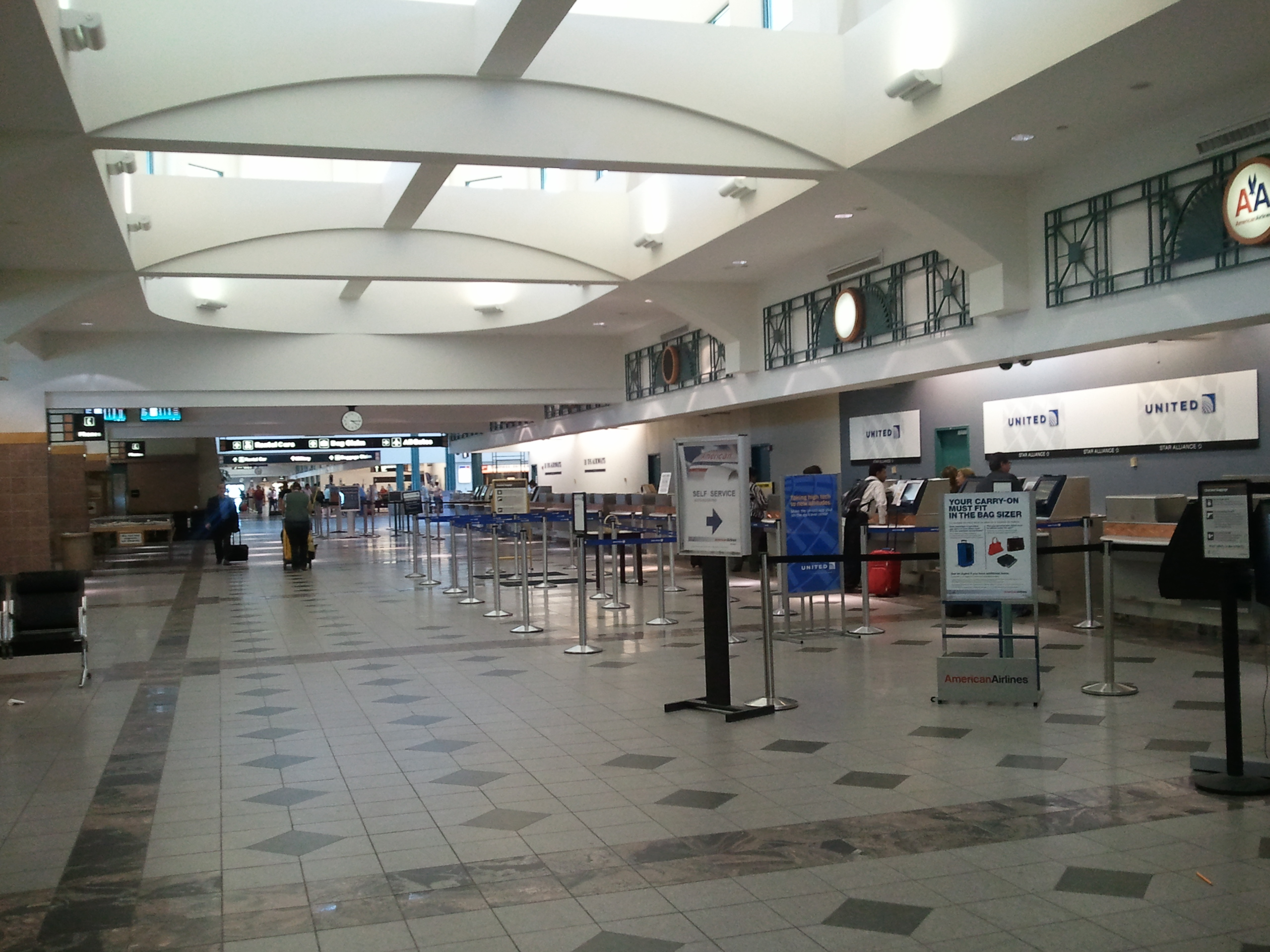 El Paso International